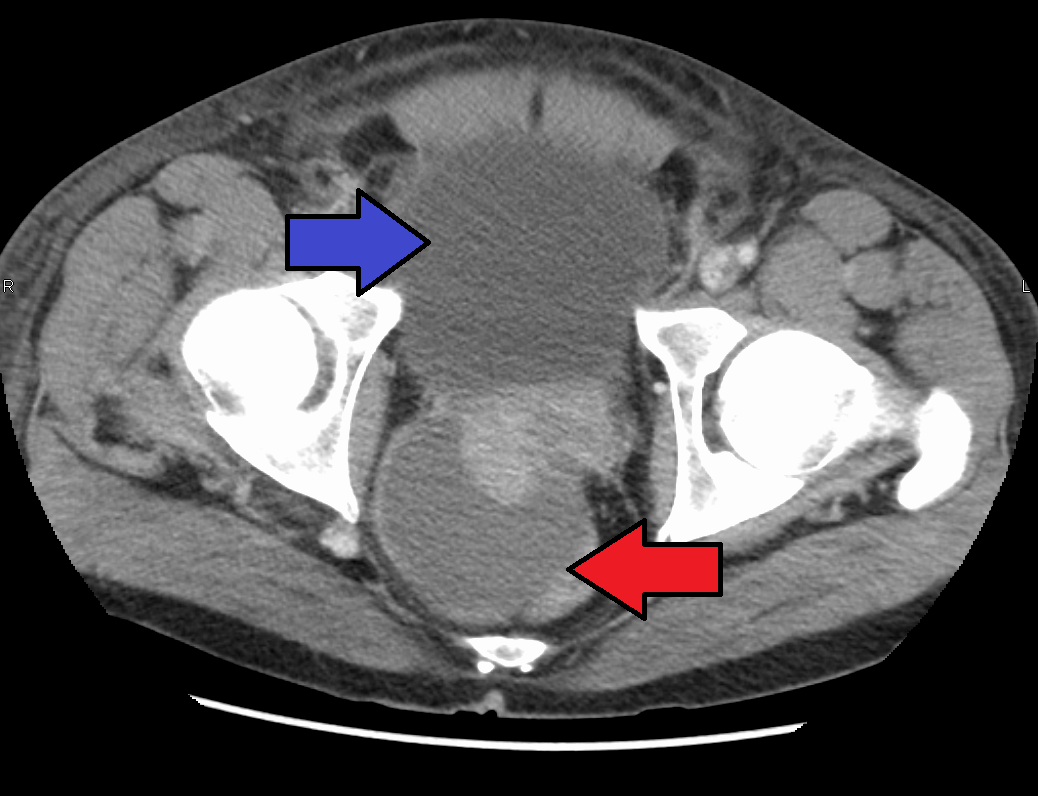 Abscess of the prostate resulting in urinary retension